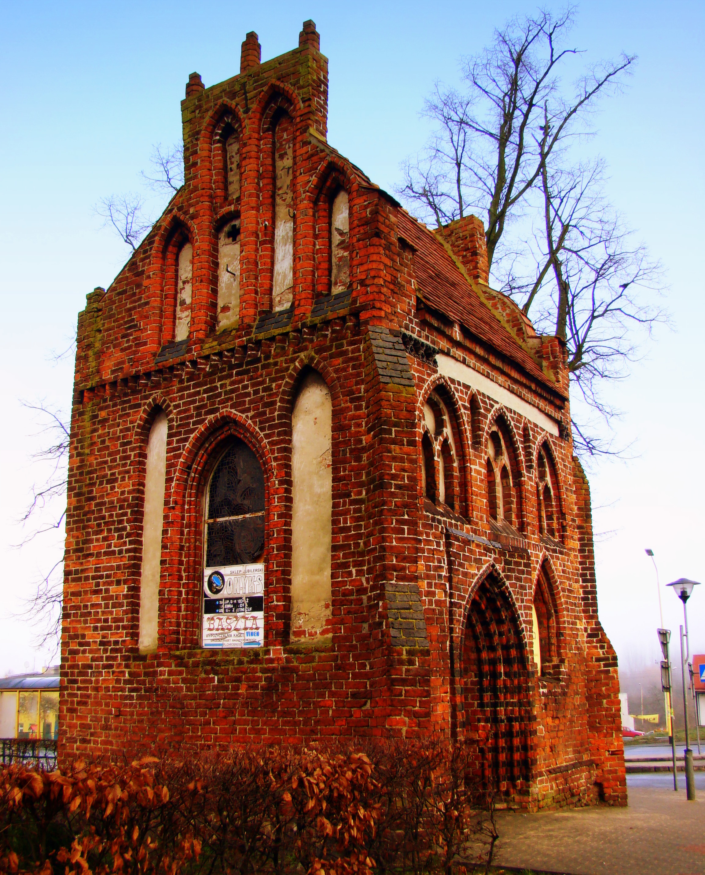 Gothic Chapel (15th century) in Police (West Pomeranian Voivodeship), Poland